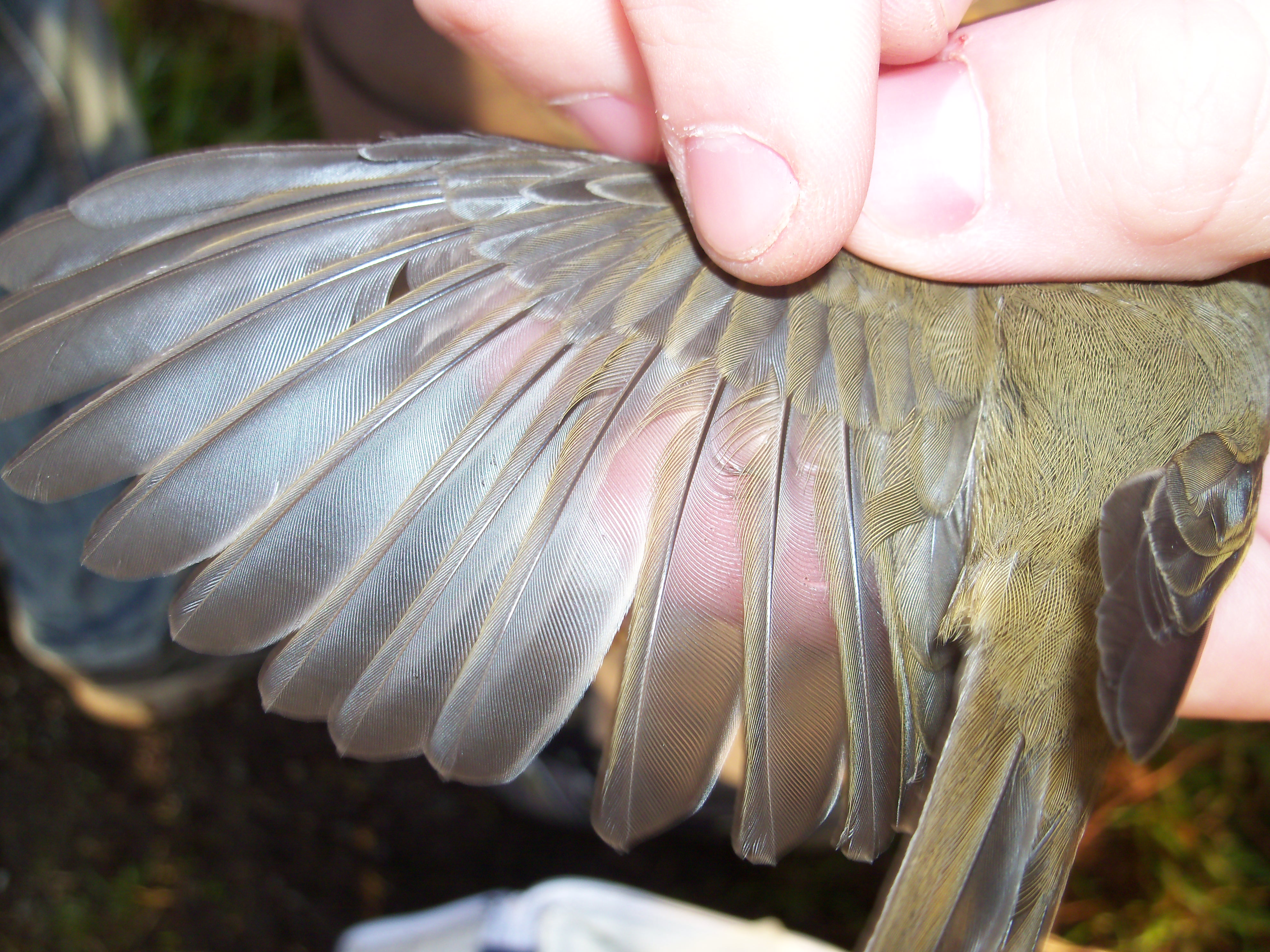 A European Robin (Erithacus rubecula) ringed at Landsort Lighthouse on the south cape of the island Öja (Landsort) ,south of Nynäshamn in Södermanland in Stockholm County in Sweden. Landsort Bird Observatory is responsible for the ringing.